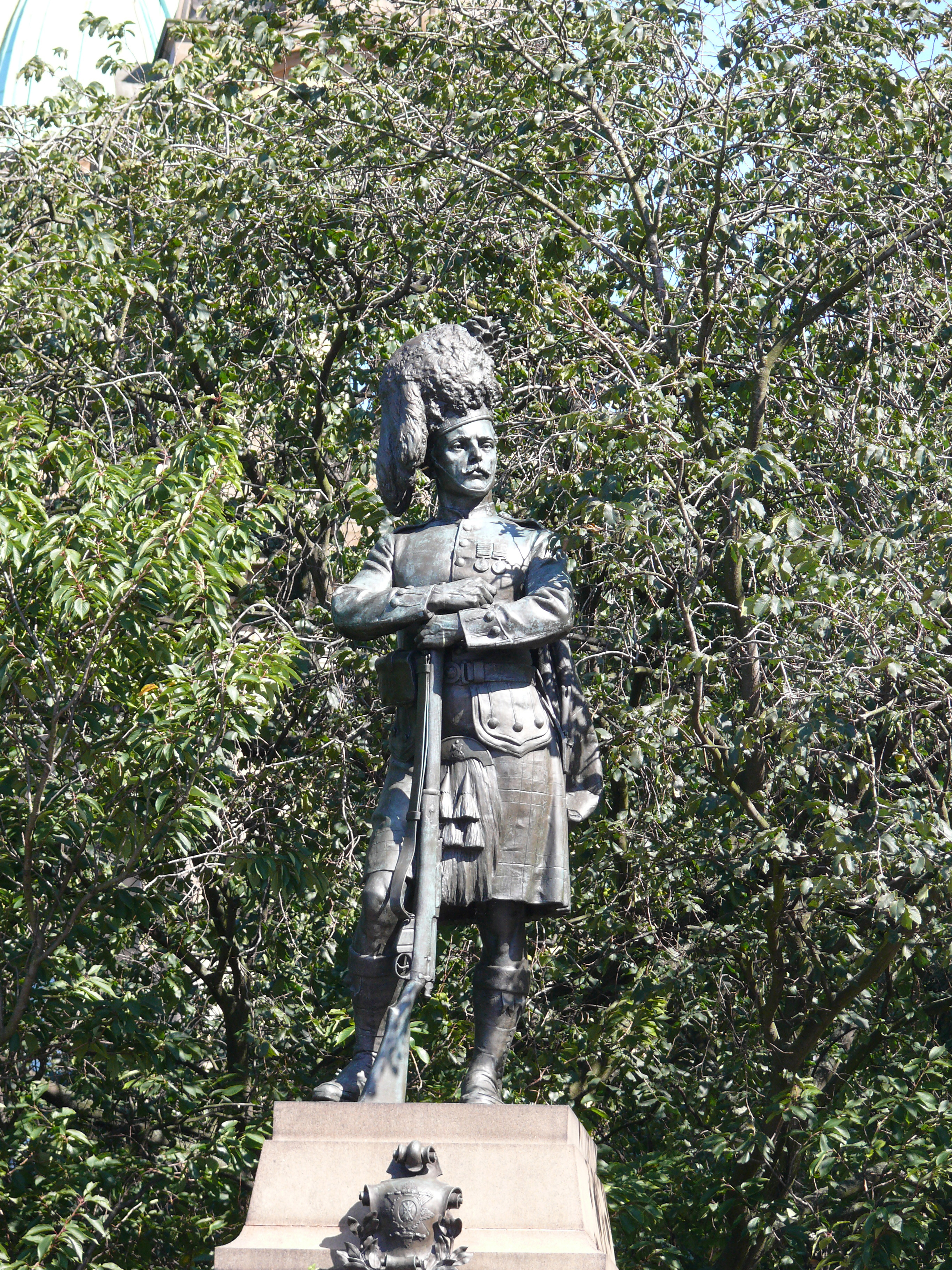 The Black Watch War Memorial, at the corner of Market Street and North Bank Street on the Mound in Edinburgh is a bronze statue of a kilted Black Watch soldier standing looking toward the Castle, on a square polished granite base, with the Black Watch crest "Am Freiceadan Dubh" above a frieze of fighting soldiers. It was designed by sculptor William Birnie Rhind, R.S.A. It was unveiled on 27 June 1910. It is dedicated "To the Memory of Officers, Non- Commissioned Officers and Men of The Black Watch Who Fell In The South African War 1899 -1902"